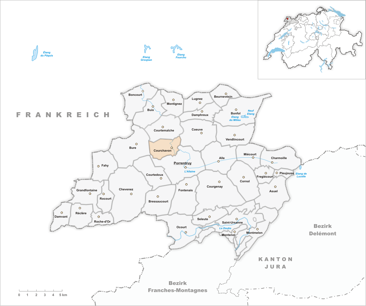 Municipality Courchavon Artist: Tschubby